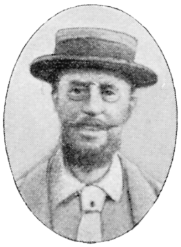 Image scanned from the book "Svenskt Porträttgalleri XX - Arkitekter, Bildhuggare, Målare m.fl. " ("Swedish Portrait Gallery XX - Architects, Sculptors, Painters, ") published 1901